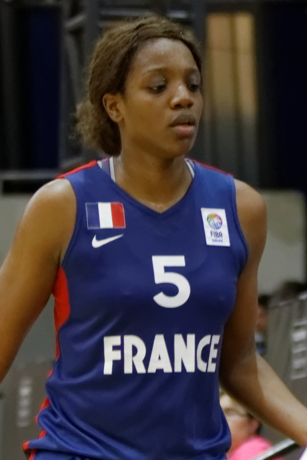 EuroEssonne, France - Canada, 7 June 2013.